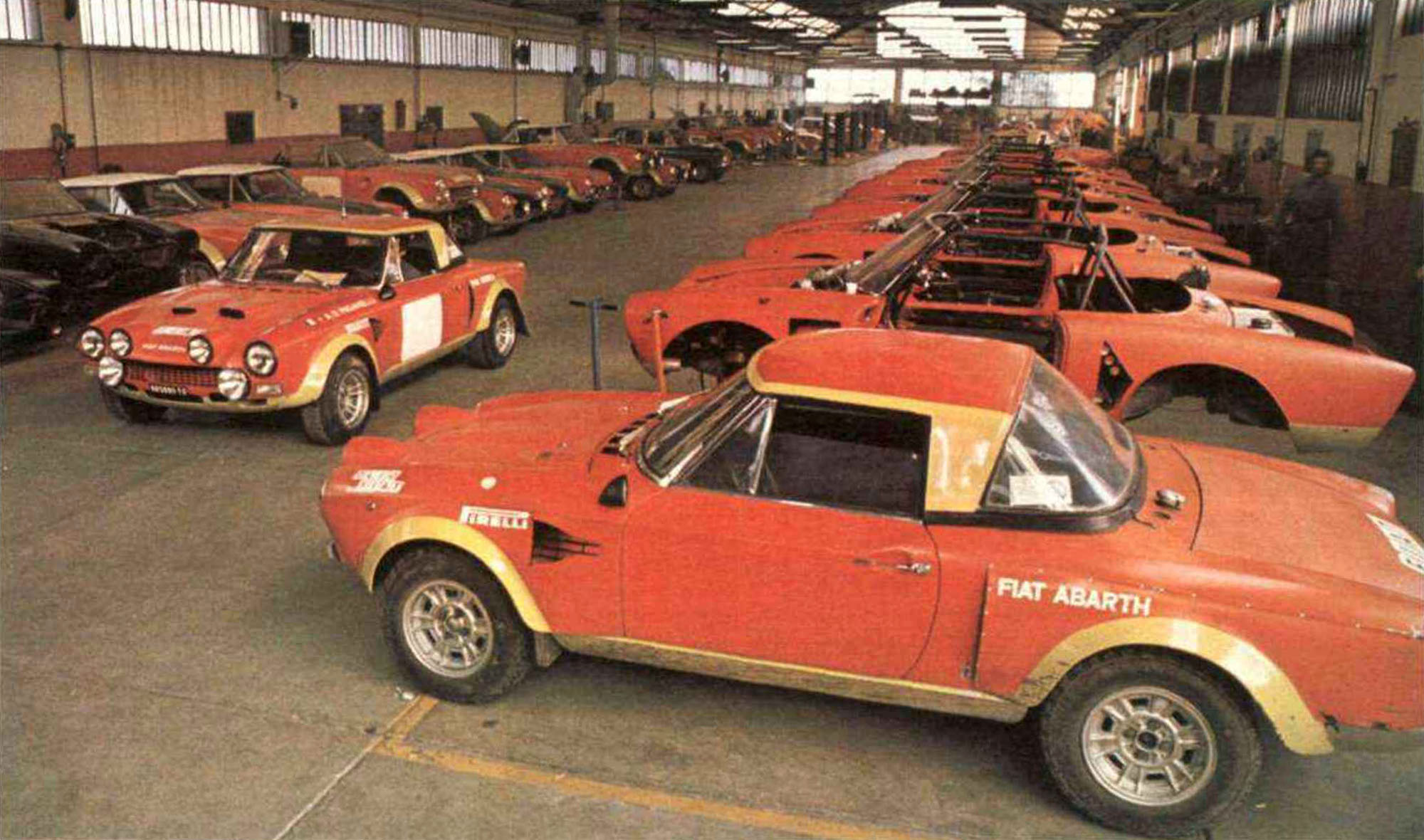 Various Fiat Abarth 124 Rallyes Gr. 4 in setup on the Fiat's Abarth Competitions Centre in Corso Marche, Turin (Italy), circa 1975.